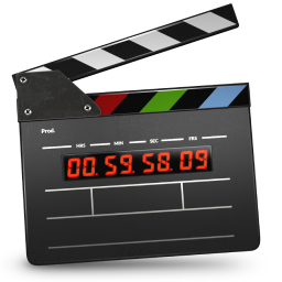 Pitivi video editor icon